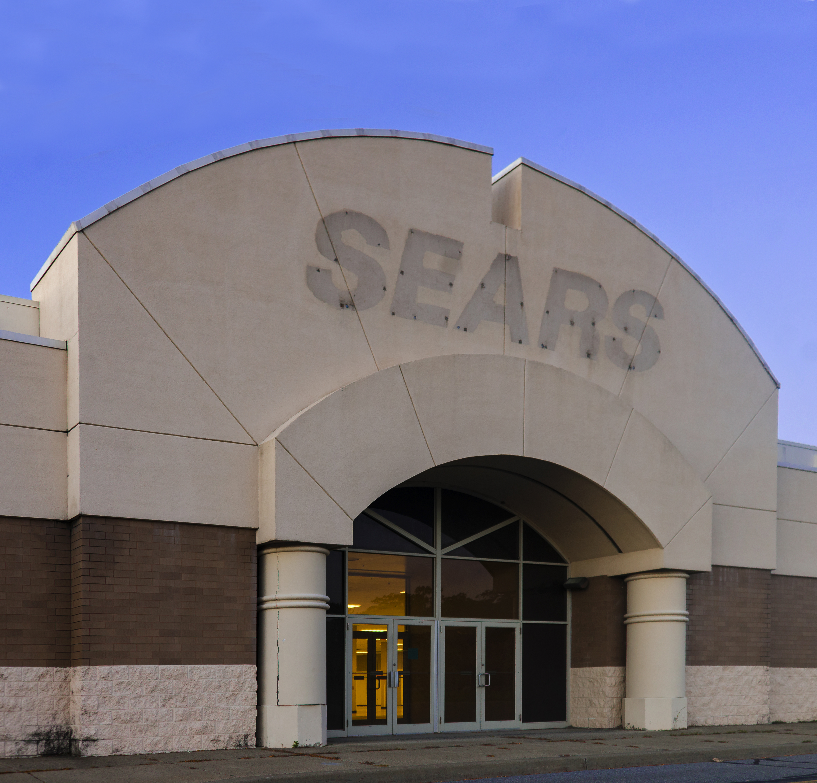 Label scar of sign above entrance to a former Sears store, at the Hudson Valley Mall outside Kingston, NY, USA